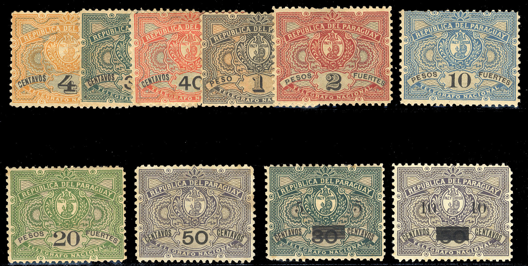 Postage and telegraph stamps of Paraguay. The two on the bottom right are telegraph stamps overprinted for postal use in 1900, the others are solely for telegraph use.